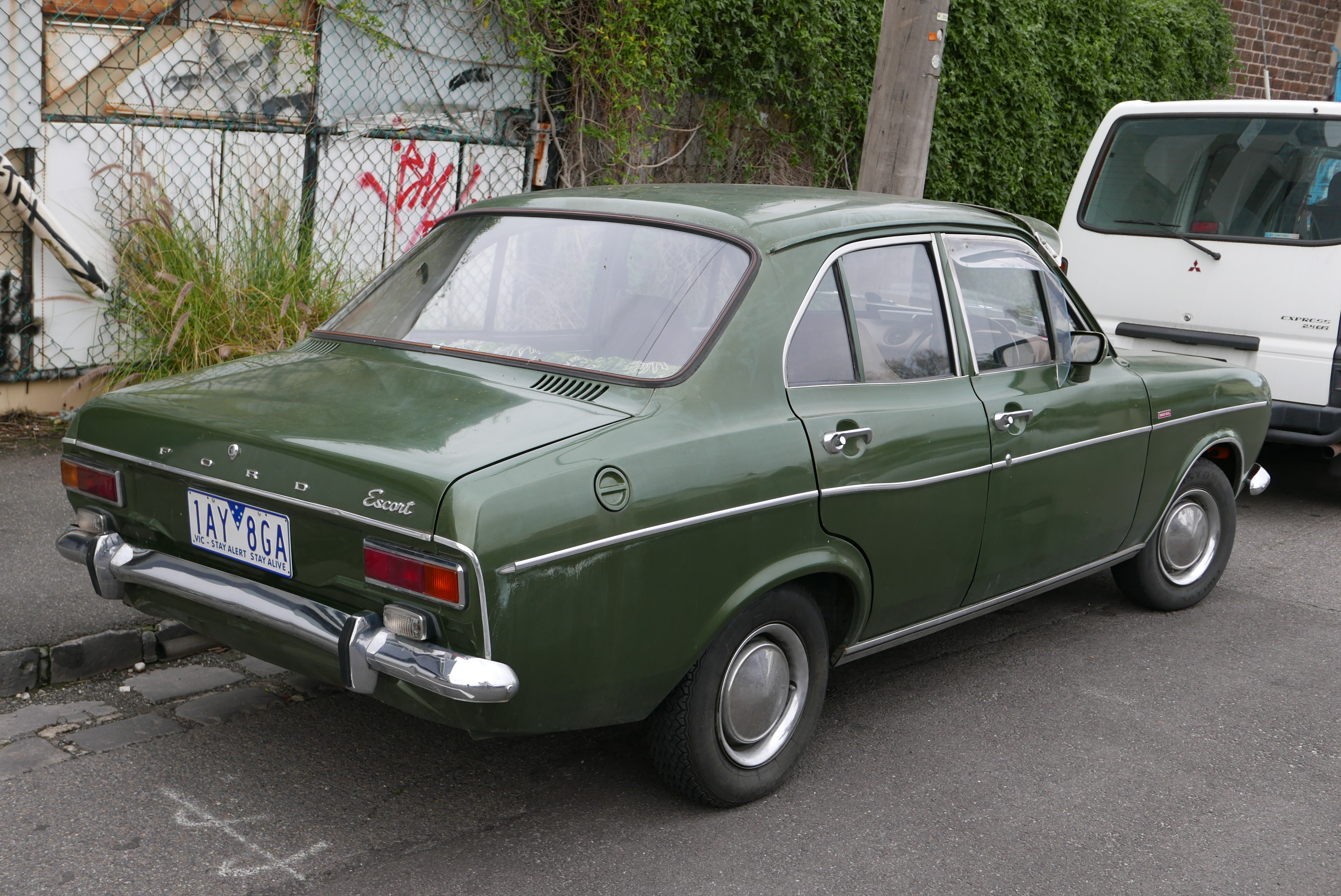 1972 Ford Escort (Mark I) XL 4-door sedan. Photographed in Fitzroy North, Victoria, Australia. Vehicle registration enquiry results Jurisdiction Victoria Registration 1AY8GA Chassis code CK5PMD32244A Engine code CK5PMD32244A Compliance date 1972-01 Year of manufacture 1972